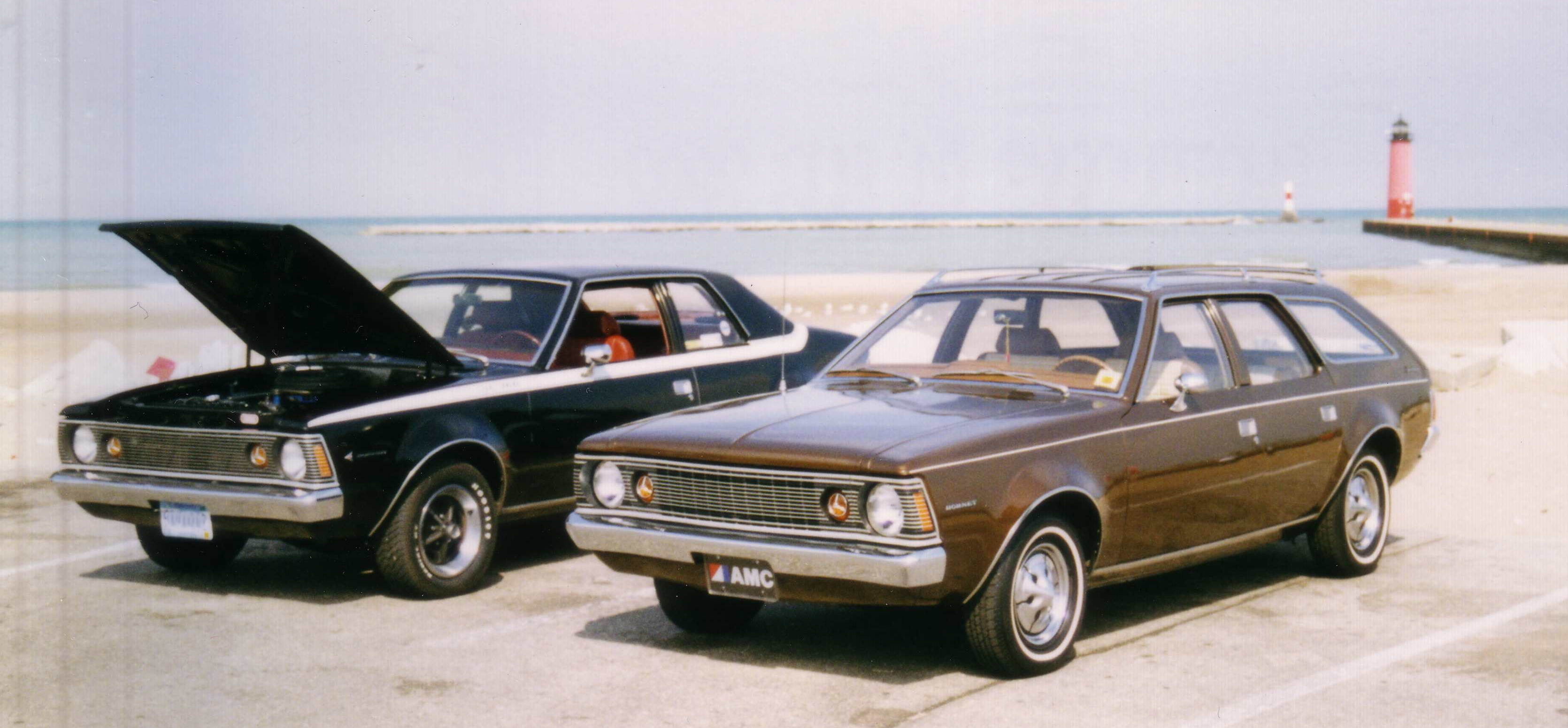 Two AMC Hornets by the lake shore in Kenosha, Wisconsin. 1971 two-door sedan (with a "SC-type" body stripe) and a brown 1972 Sportabout, a four-door station wagon. American Motors Corporation